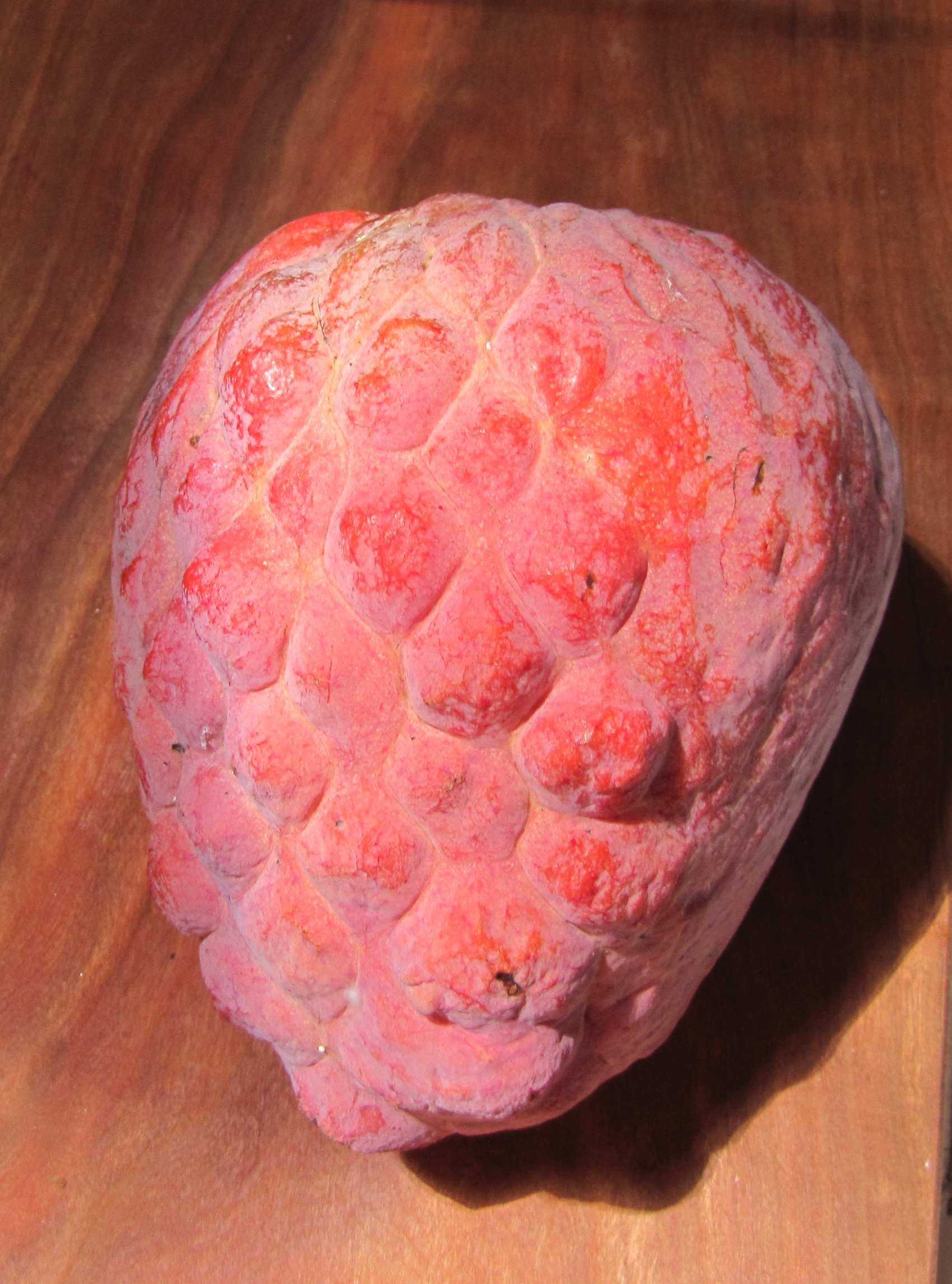 Anonna fruit from my backyard, Merida, Yucatan, Mexico